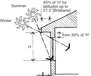 Shading devices concept